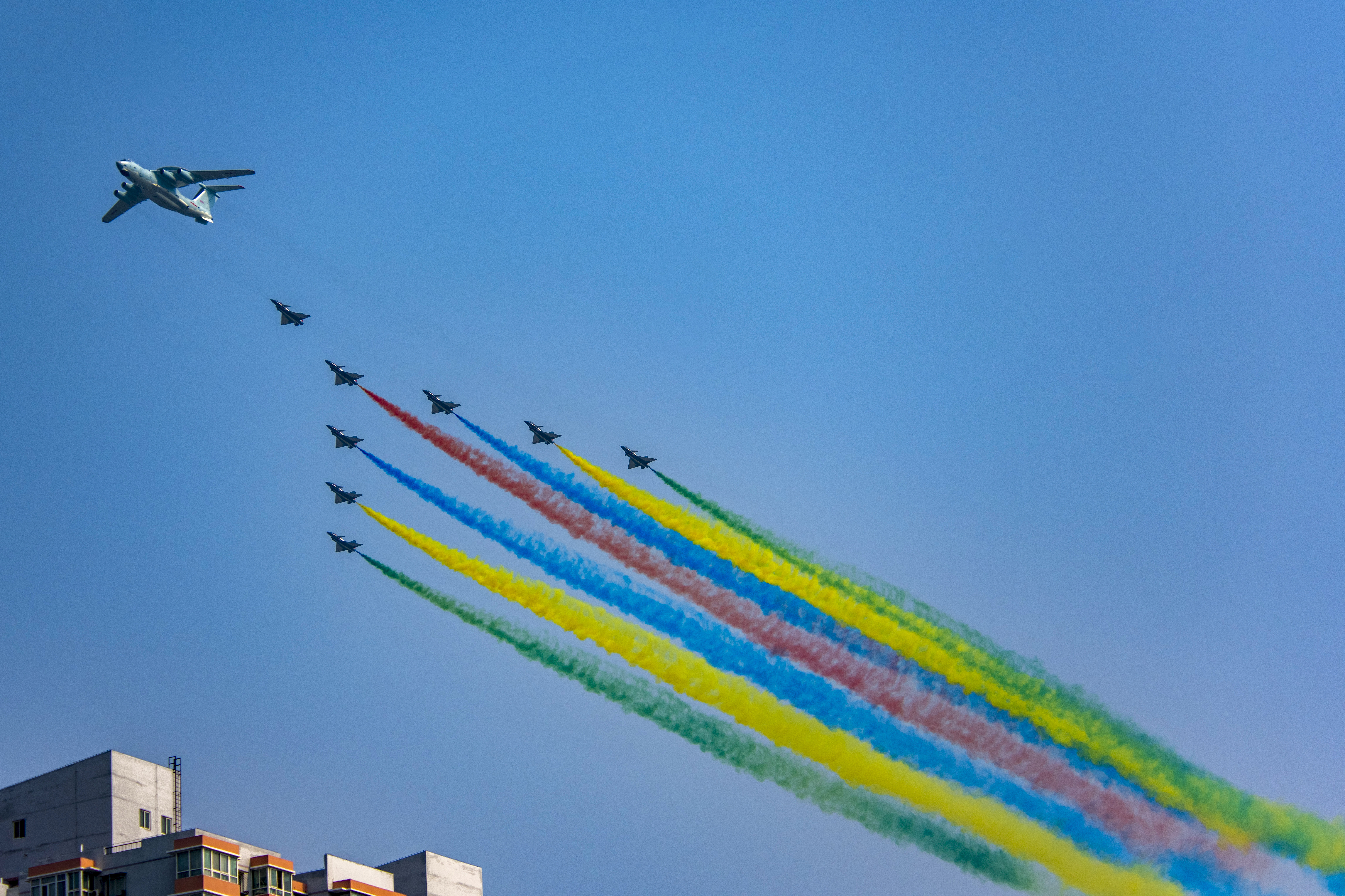 A KJ-2000 and aerobatic J-10s. Let's start!